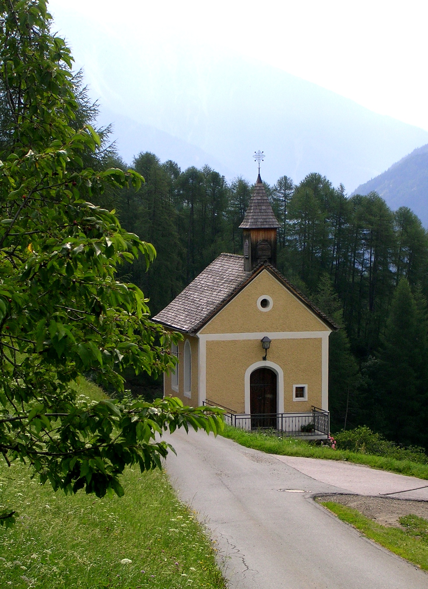 Kapelle Marin im Weiler Marin in der Fraktion Göriach, Virgen. This media shows the remarkable cultural object in the Austrian state of Tyrol listed by the Tyrolean Art Cadastre with the ID 16116. (on tirisMaps, pdf, more images on Commons, Wikidata)